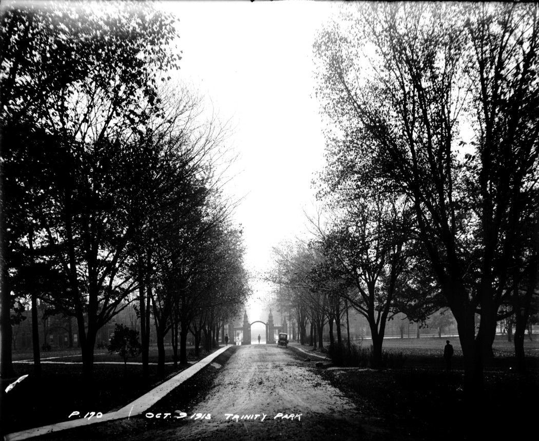 The gates of Old Trinity University seen in 1913, looking south towards Queen Street West. Now Trinity Bellwoods Park.